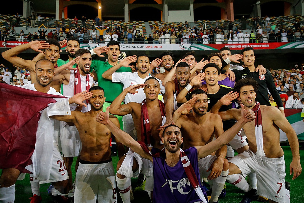 South Korea-Qatar, 2019 AFC Asian Cup Quarter-final